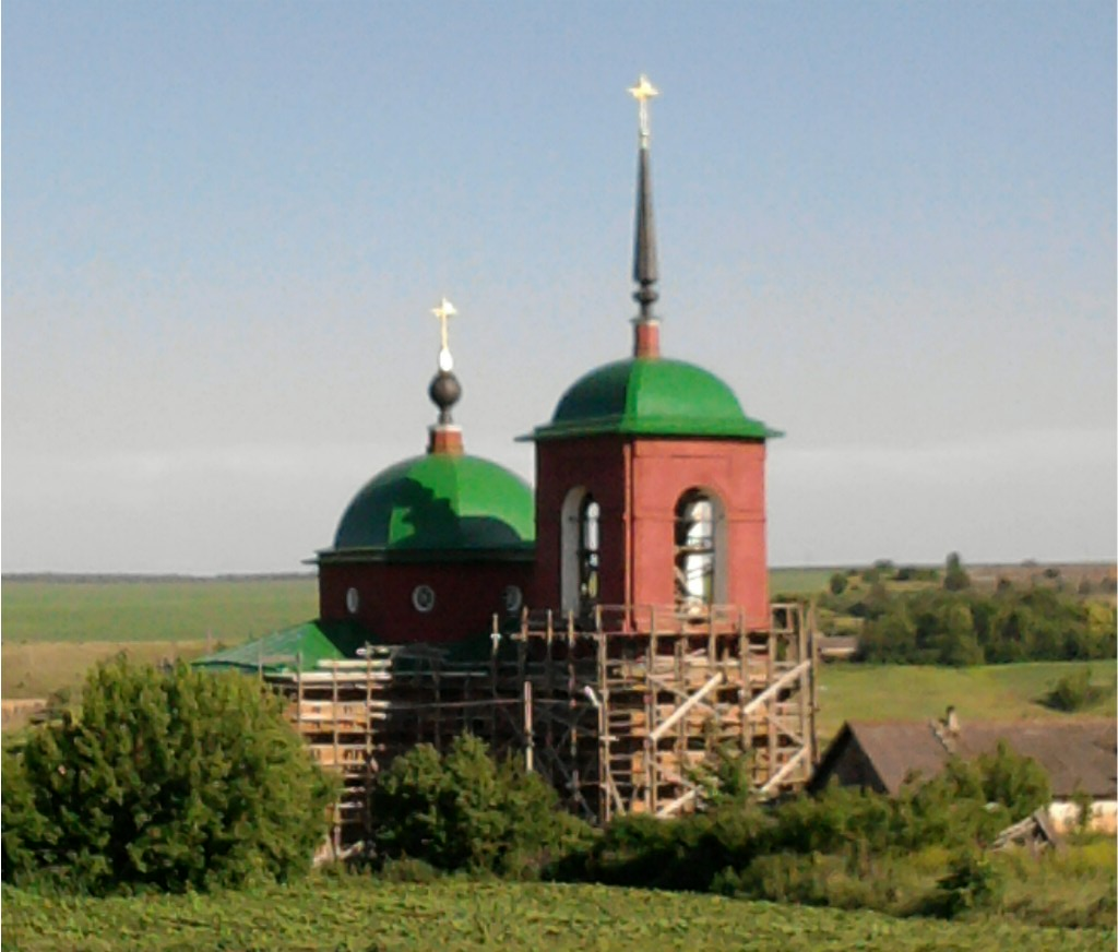 храм григория Богослова